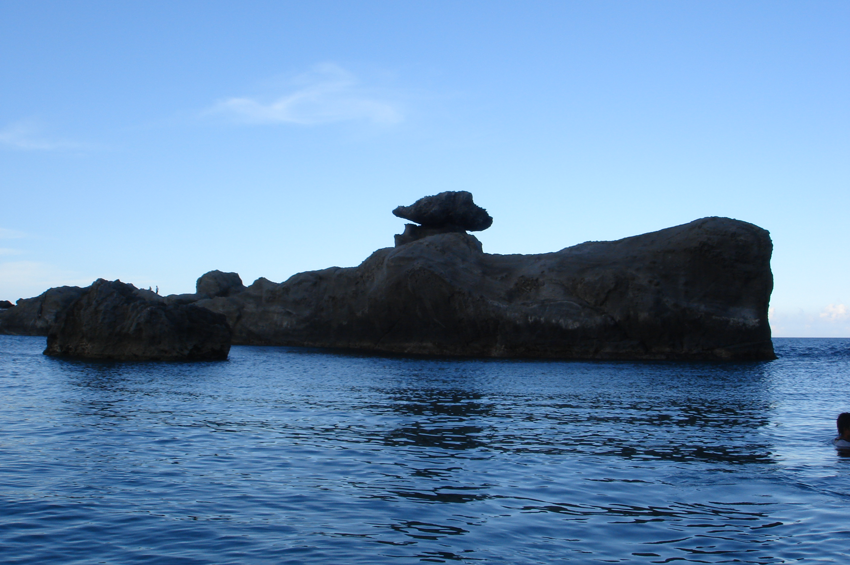 Taitung, Taiwan